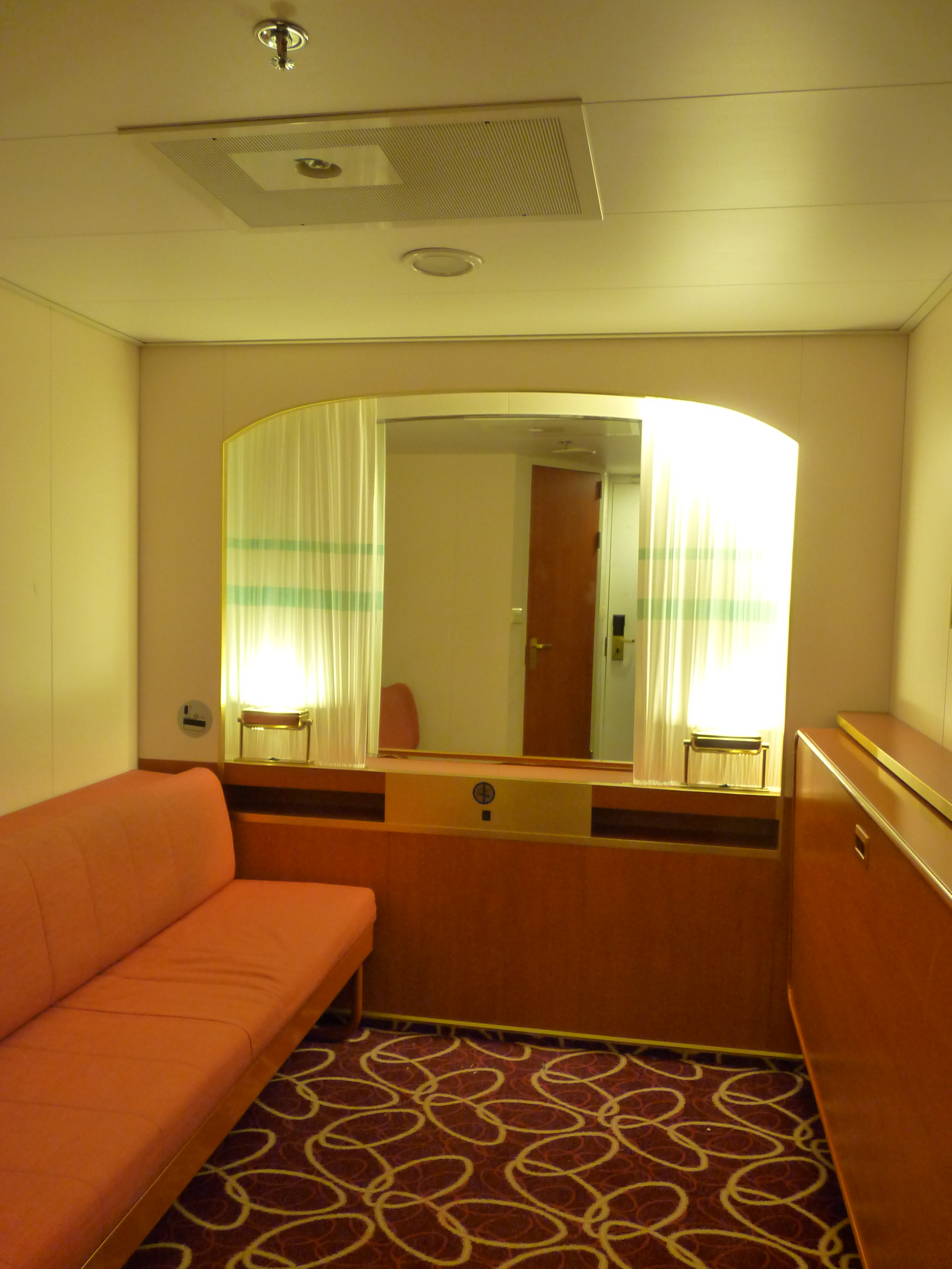 MS Romantica